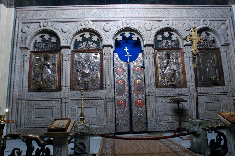 Sioni Cathedral in Tbilisi